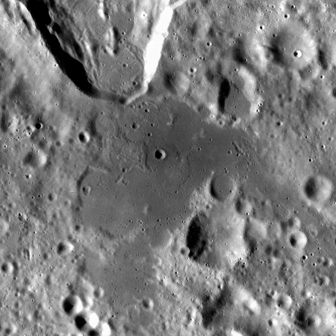 Lacus Luxuriae on the Moon. Mosaic of photos by Lunar Reconnaissance Orbiter, made with Wide Angle Camera. Size of the image is 80×80 km, north is up.